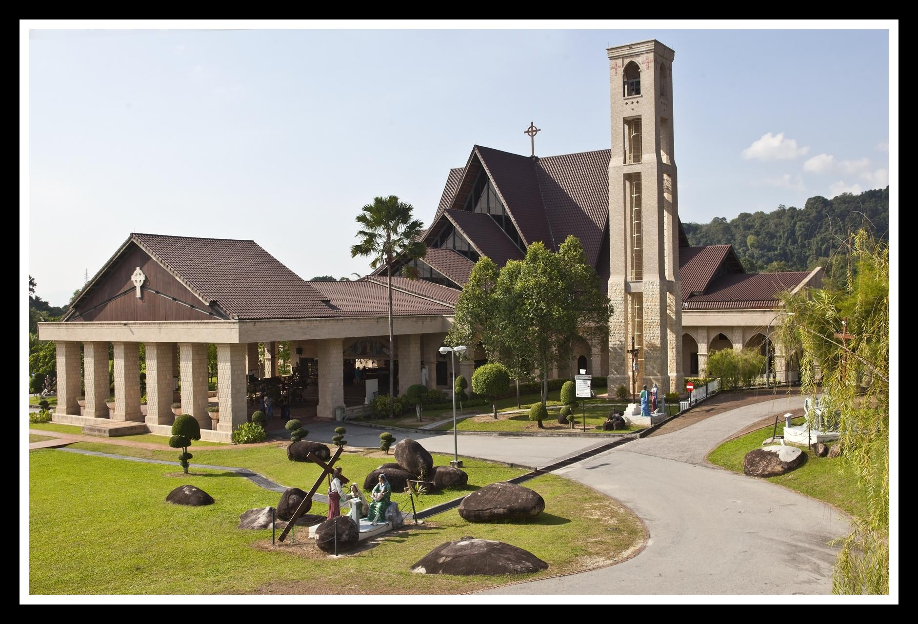 Church of St Anne Bukit Metajam Malaysia. The site of the church (originally a chapel), was founded in 1846 by French priests, with the main church opened in 1888. It is named after St Anne, the mother of the Virgin Mary and grandmother of Jesus Christ. The original church is now called St Anne's Shrine. It was the main church for the annual celebrations for St Anne's feast. In 1958, the parish opened another church. This church was known as the "new church" for 48 years, and is now a centre.